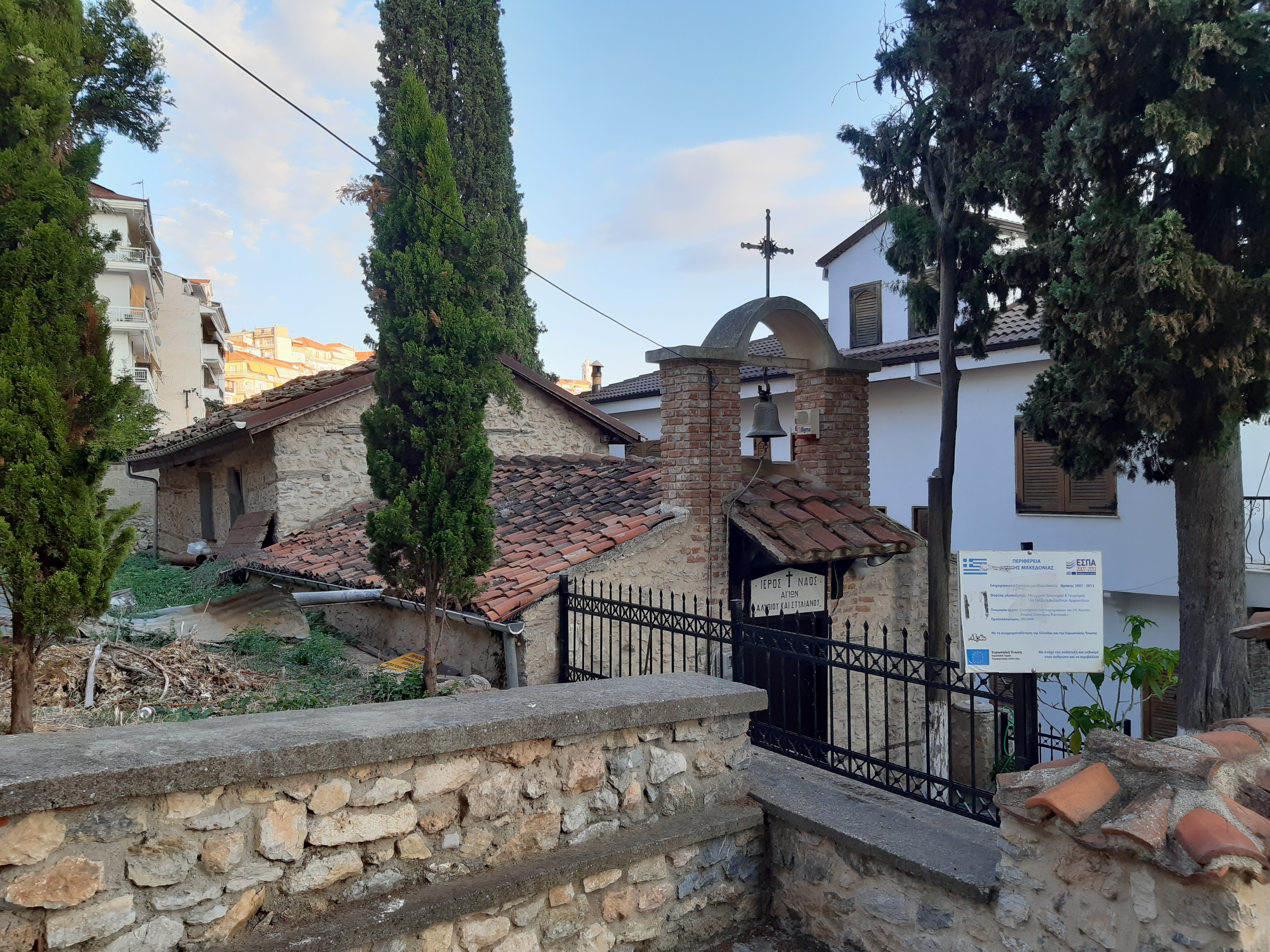 Saint Alypius Church, Kastoria